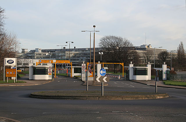 The Boots Company, Beeston. The main entrance to the site from Humber Road. The unfussy Art Deco gatehouses and pillars are marred by a clutter of street furniture and the garish modern yellow portals behind. In the background is Sir Owen Williams acclaimed factory building (see 678655).